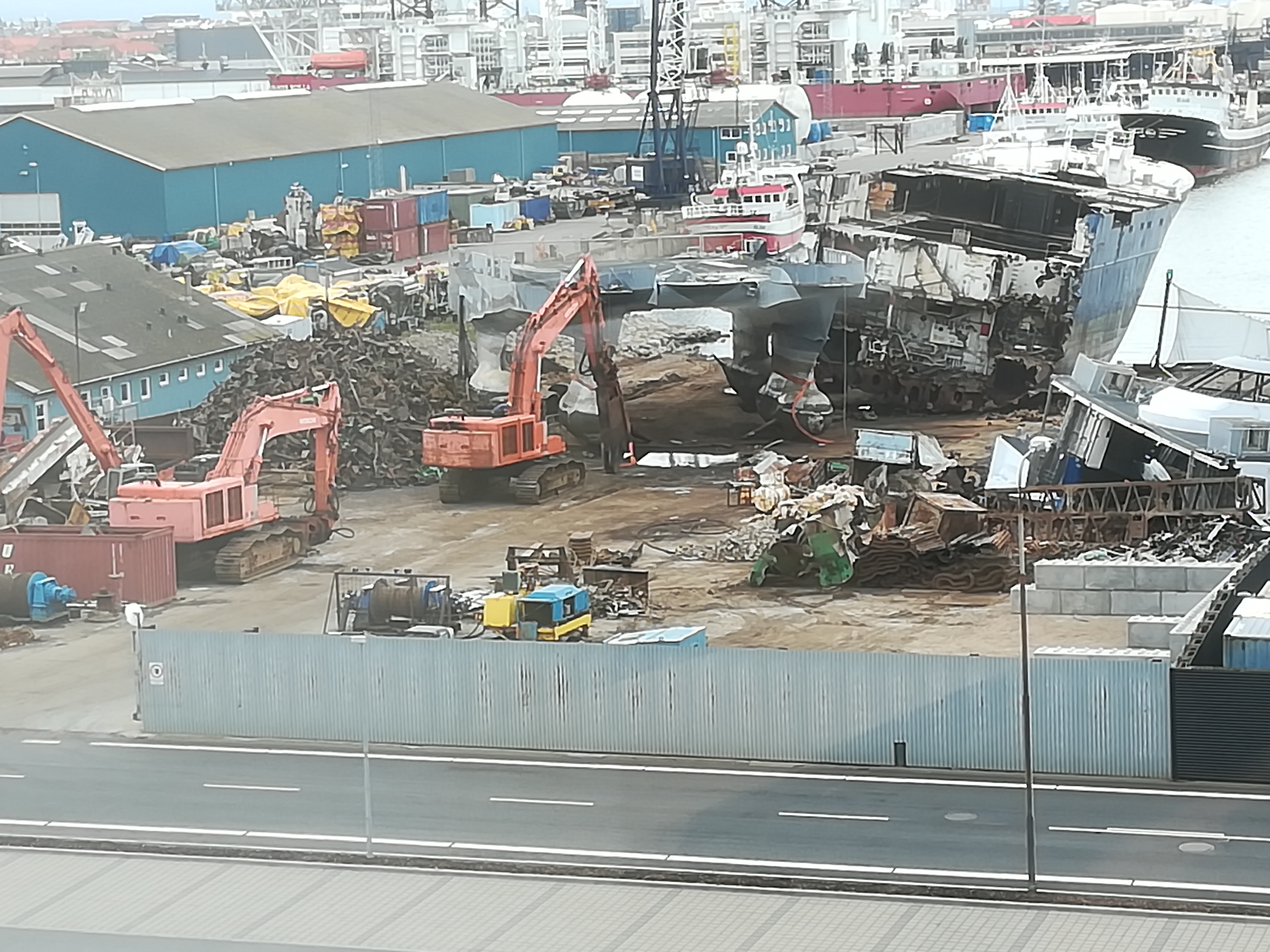 Sea Slice